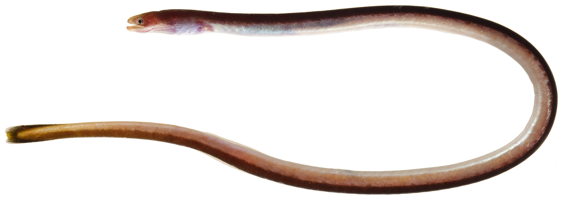 Moringua edwardsi (Jordan & Bollman, 1889)—spaghetti eel, 258 mm TL. Photo by JT Williams.